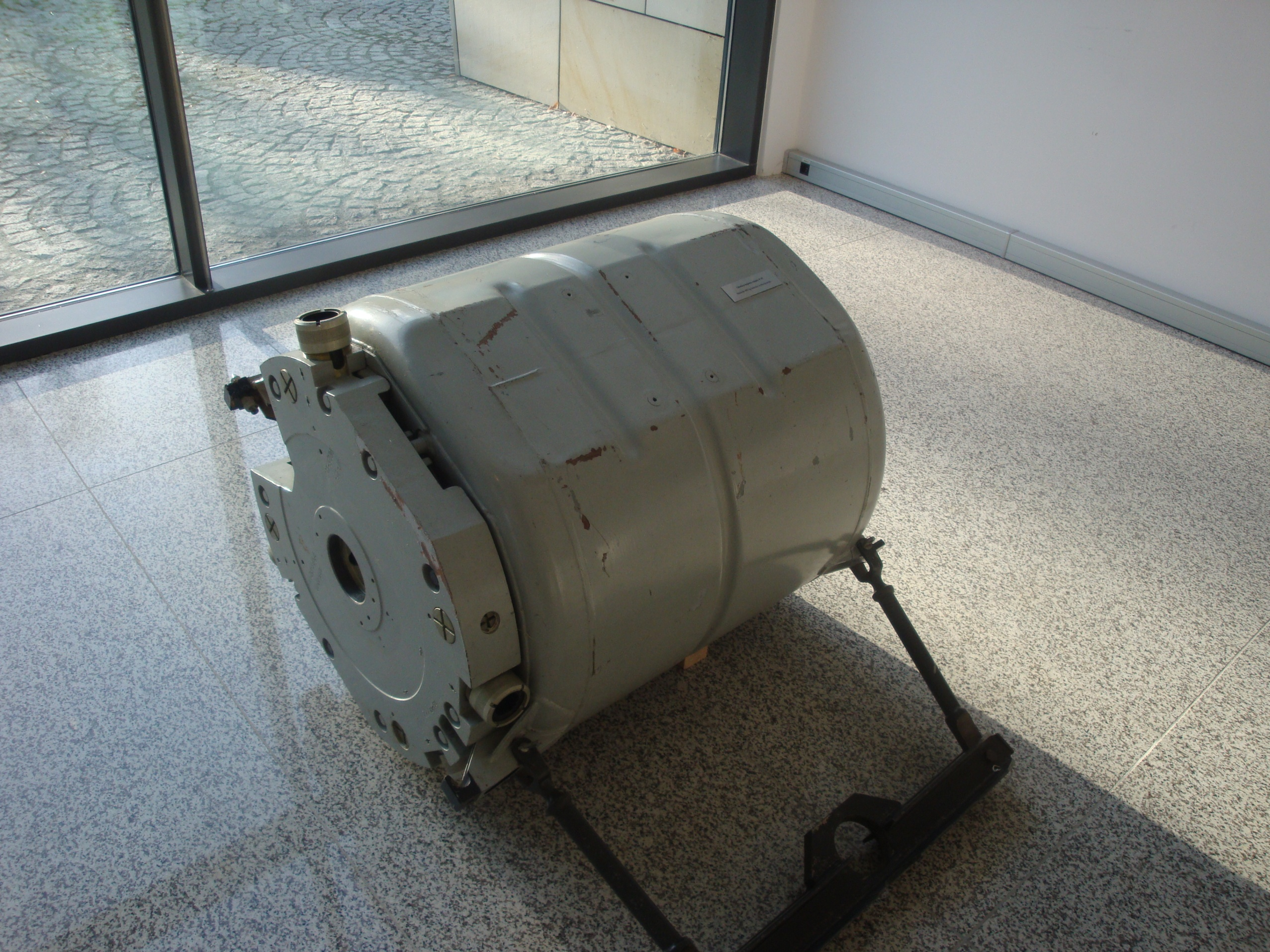 Warhead of P-15 Termit rocket.